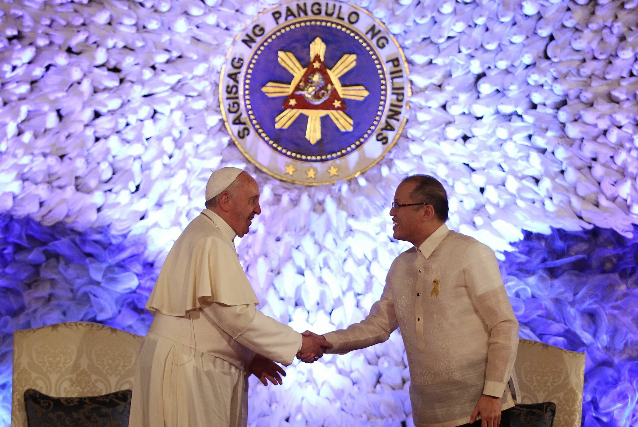 President Benigno S. Aquino III converses with His Holiness Pope Francis during the General Audience of senior Government Officials and members of the Diplomatic Corps at the Rizal Hall of the Malacañan Palace for the State Visit and Apostolic Journey to the Republic of the Philippines on Friday (January 16, 2015)